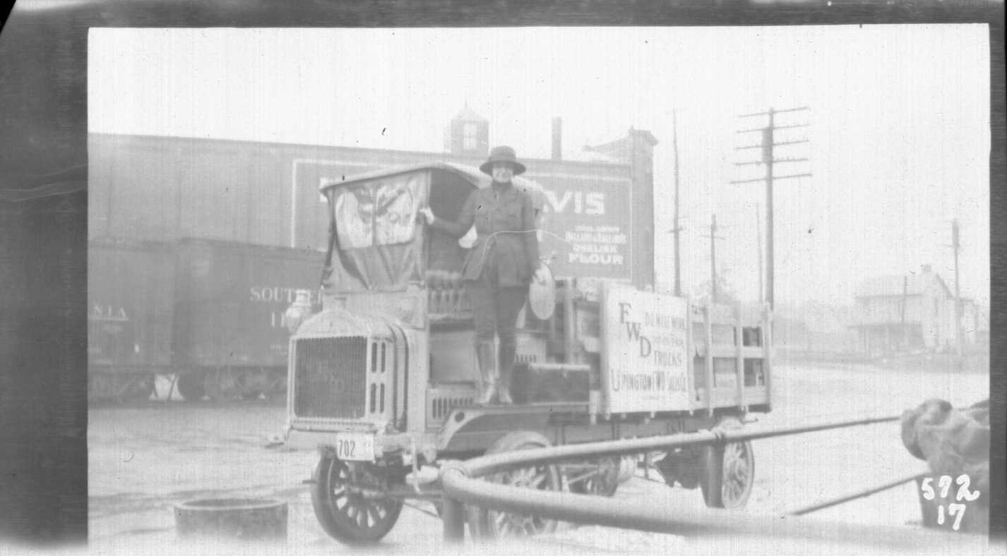 Luella Bates standing next to her FWD model B truck. Taken circa 1919.